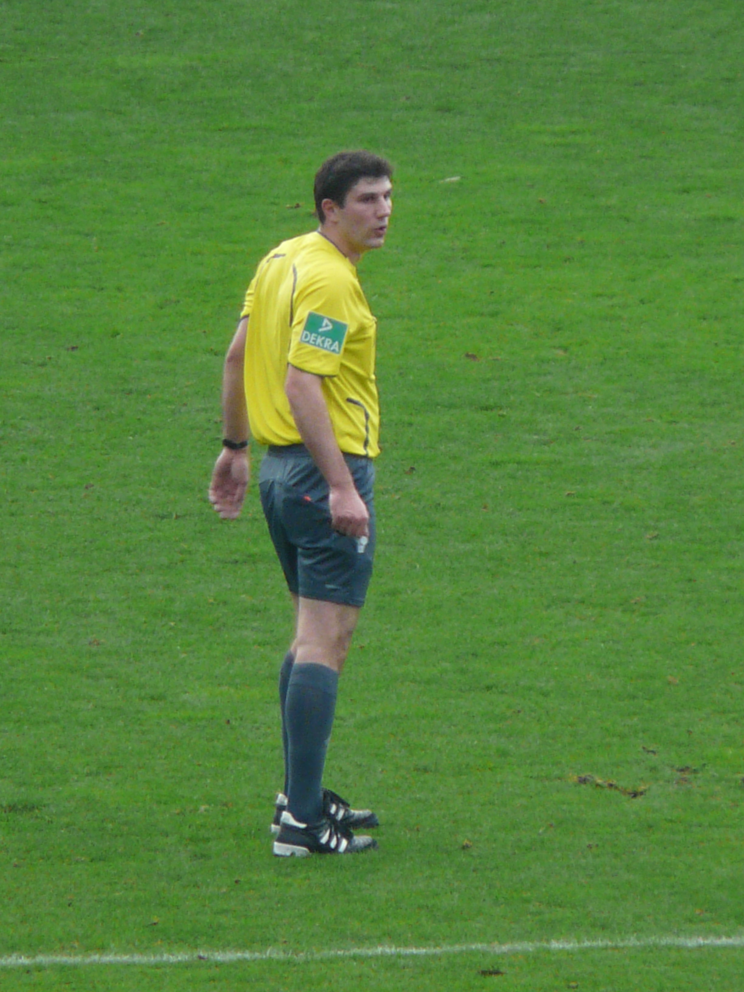 Markus Wingenbach Referee